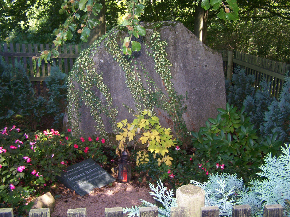 Bahners Memorial near Wernershausen.